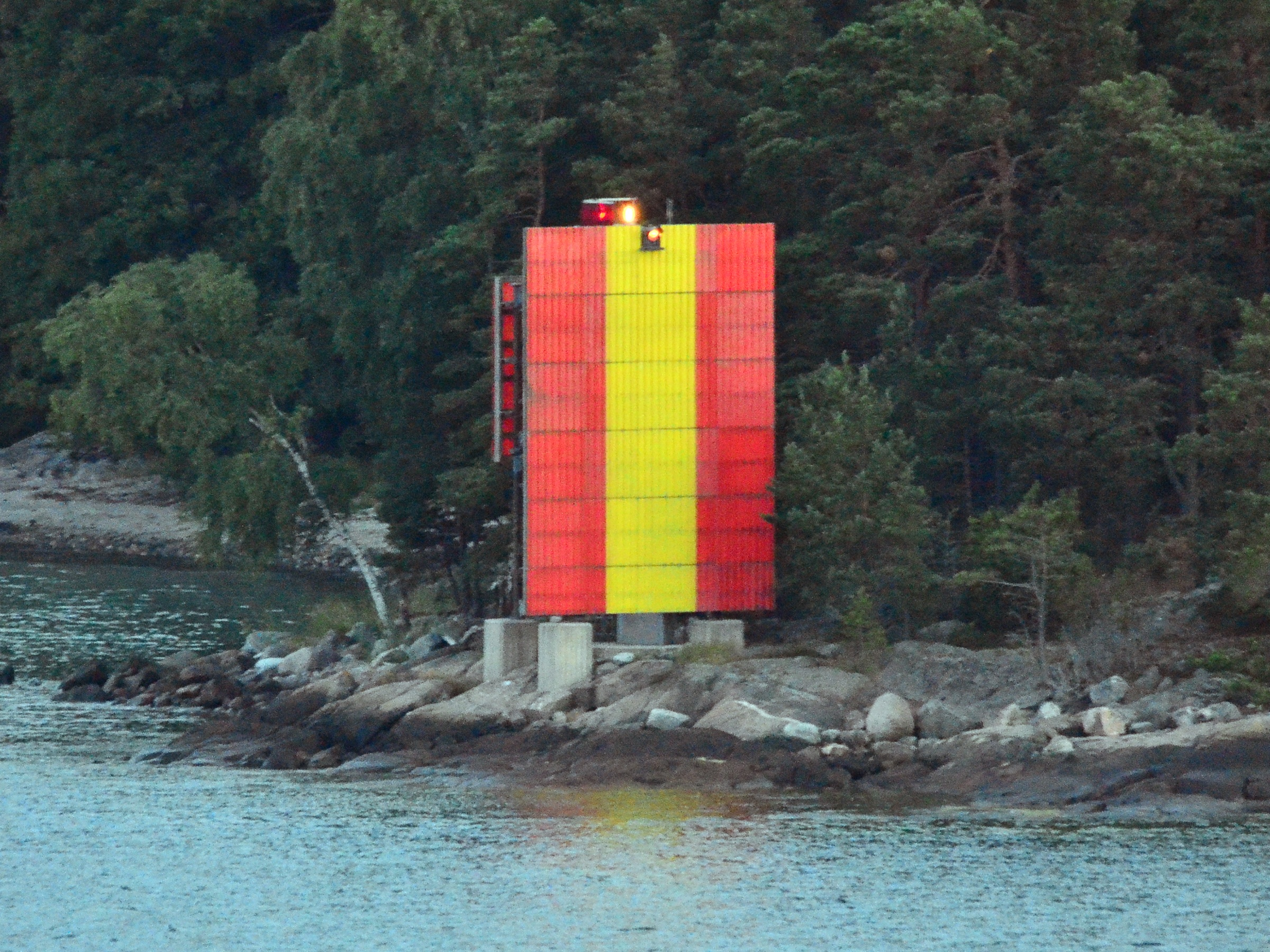 The range light Svartholm in Korpo, Finland. It is a part of two leading lines; One to the south marked with red light and one to north-east marked by white light.